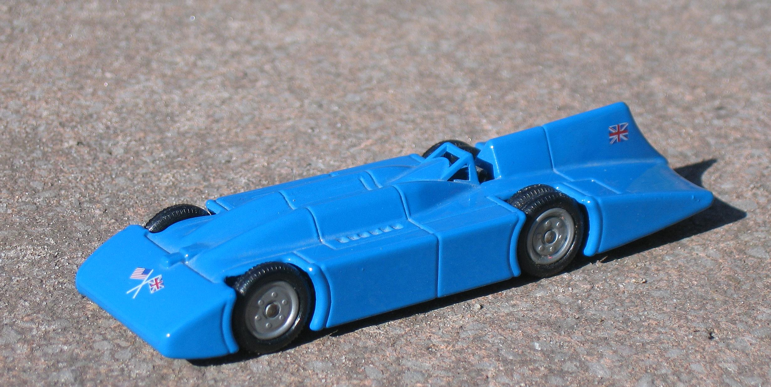 Modern Lledo model of Sir Malcolm Campbell's 1935 land speed record car Blue Bird